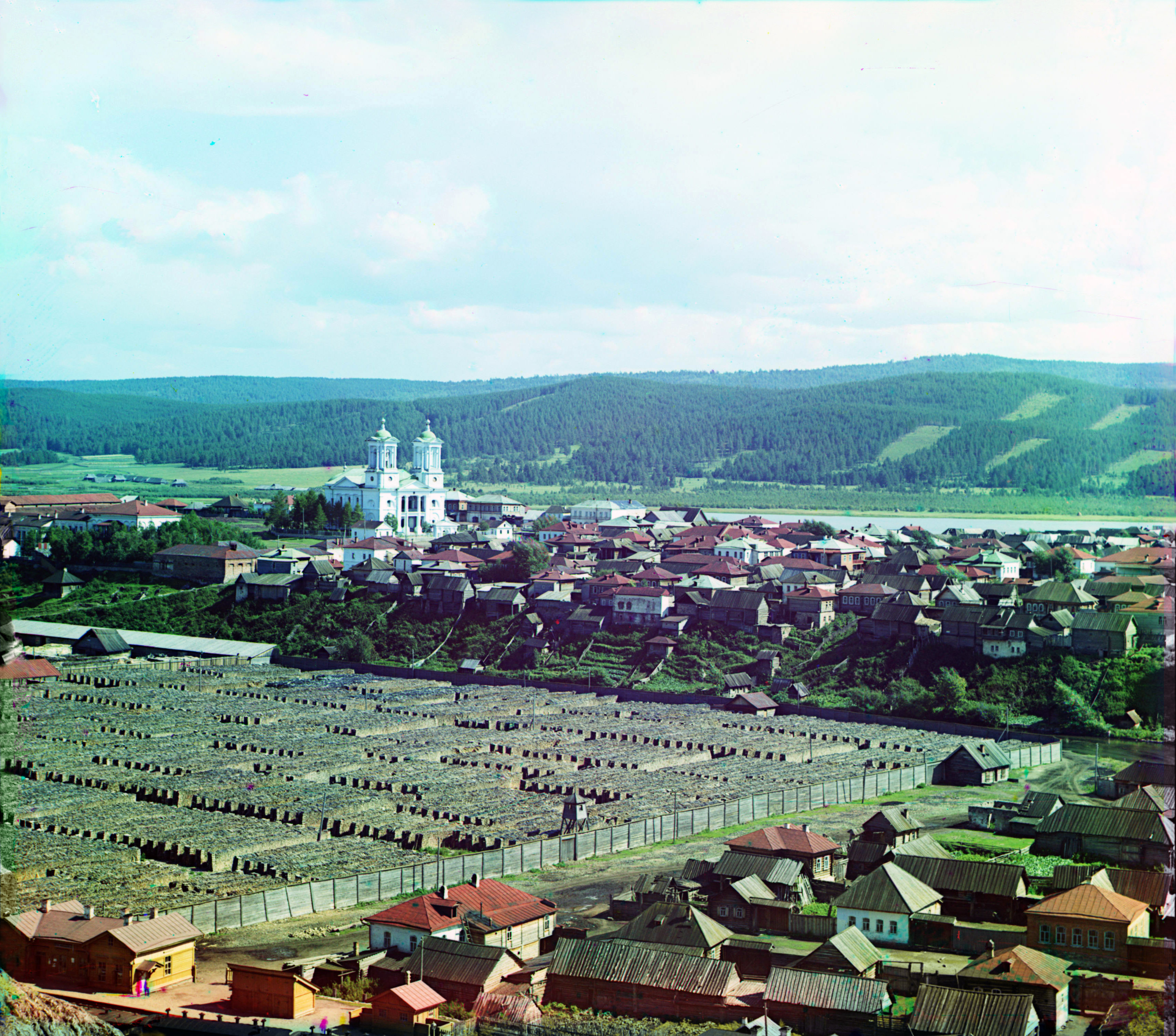 To Make Your Own Color Photo from the Original Glass Plate Negative, use this file: Prokudin-Gorskiĭ, Sergeĭ Mikhaĭlovich, 1863-1944, photographer. General view of Katav-Ivanovskii Zavod [1910] 1 negative (3 frames) : glass, b&w, three-color separation ; 24 x 9 cm. Notes: Forms part of: Sergei Mikhailovich Prokudin-Gorskii Collection (Library of Congress). Subjects: Cities & towns. Churches. Hills. Forests. Russia (Federation)--Katav-Ivanovsk. Russia (Federation)--Ural Mountains Region. Format: Glass negatives. Color separation negatives. Cityscape photographs. For additional information on commercial use, see "Prokudin-Gorskii...," Repository: Library of Congress, Prints and Photographs Division, Washington, D.C. 20540 USA Higher resolution image is available (Persistent URL): Call Number: LC-P87- 4349